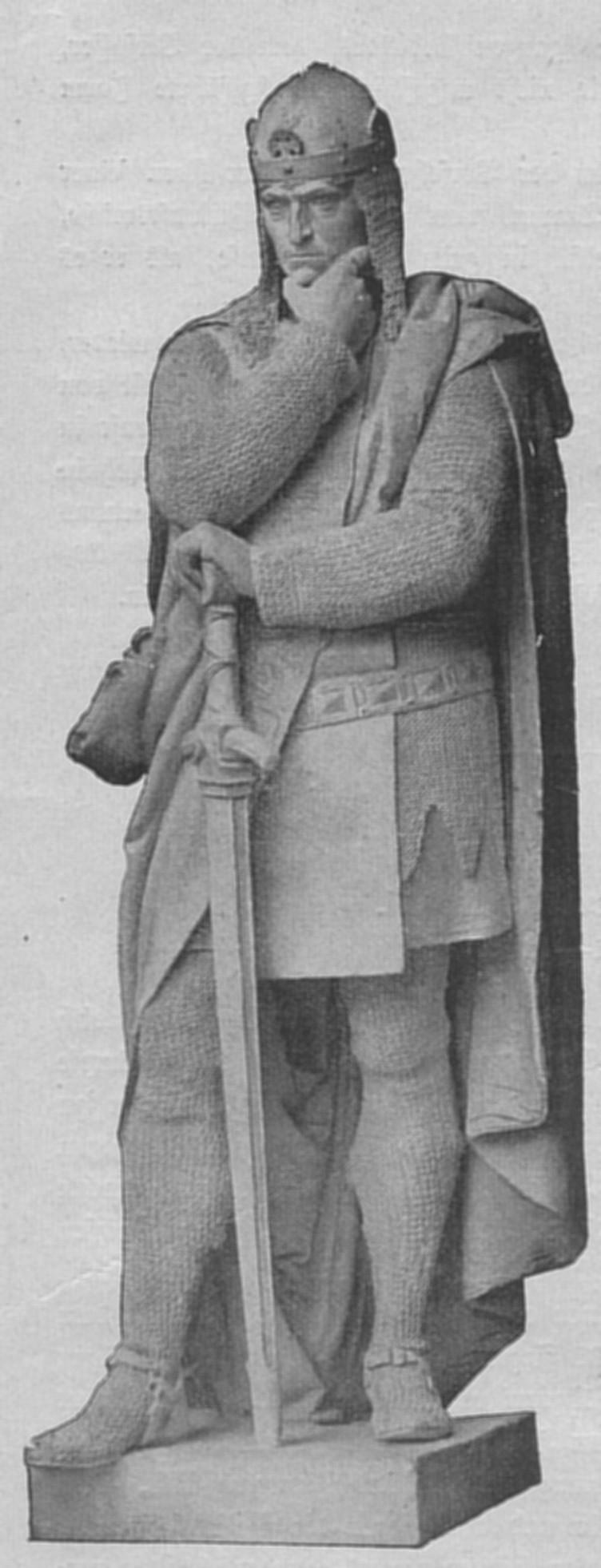 Memorial commemorating to Otto II (c. 1147-1205), third margrave from Brandenburg and grandson of Albert the Bear. Inaugurated 1898 in the former Siegesallee in Berlin, created by the sculptor Joseph Uphues. At the present stored in the Lapidarium in Berlin-Kreuzberg.